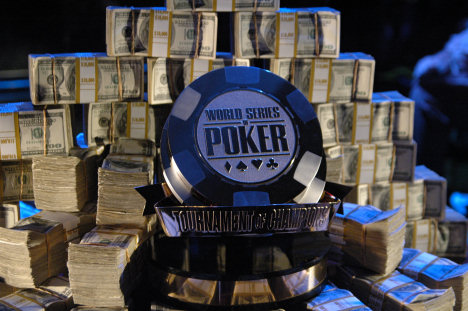 Money for the Winner of WSOP:ToC